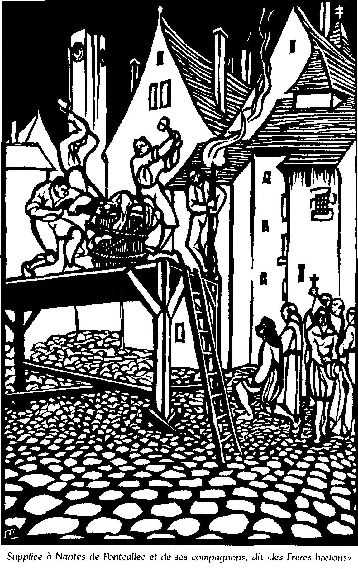 wood engraving depicting the execution of Marquis de Pontcallec.